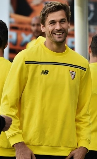 Fernando Llorente